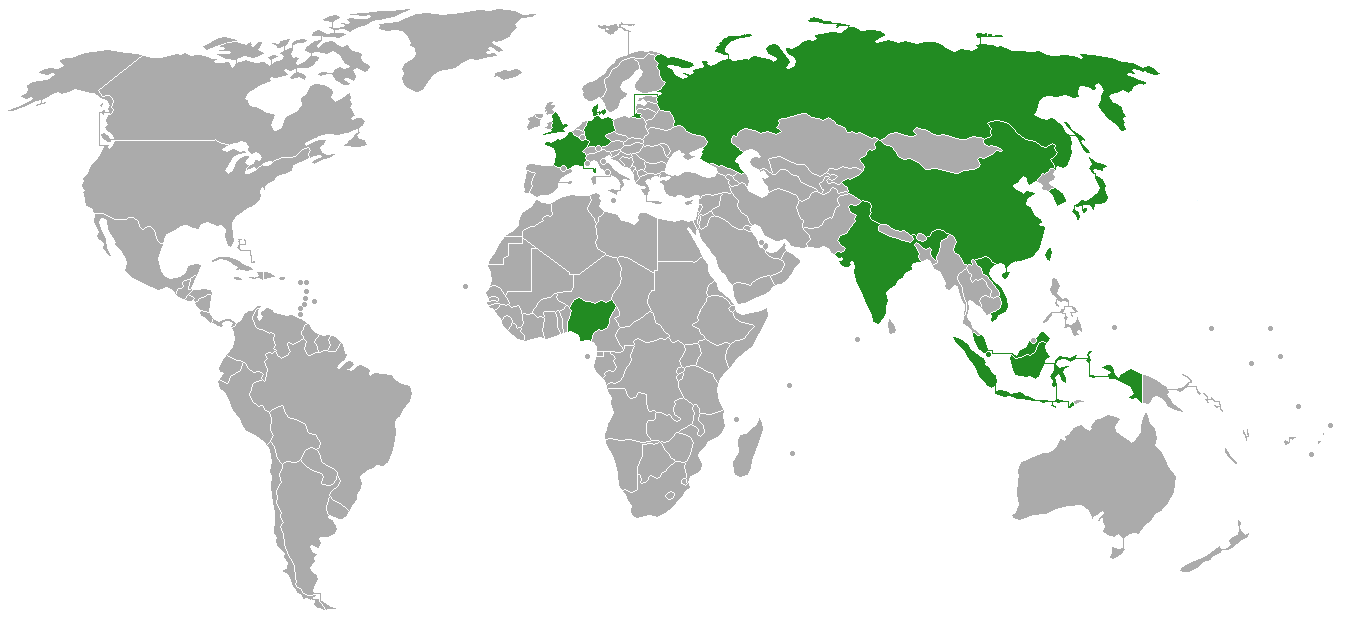 Nations participating in the Thomas Cup in 2014.